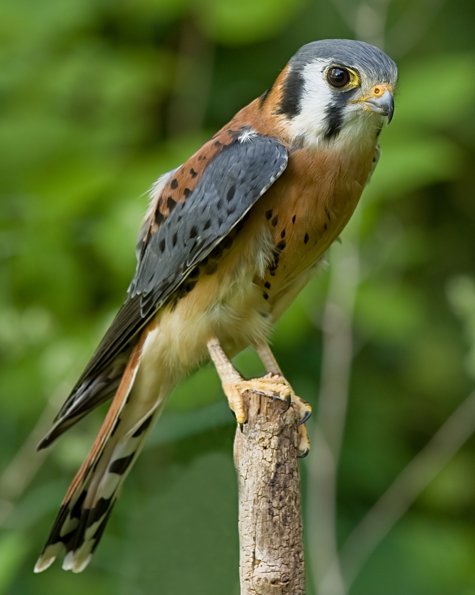 Male American Kestrel taken at Raptor, Inc. Photo by Greg Hume